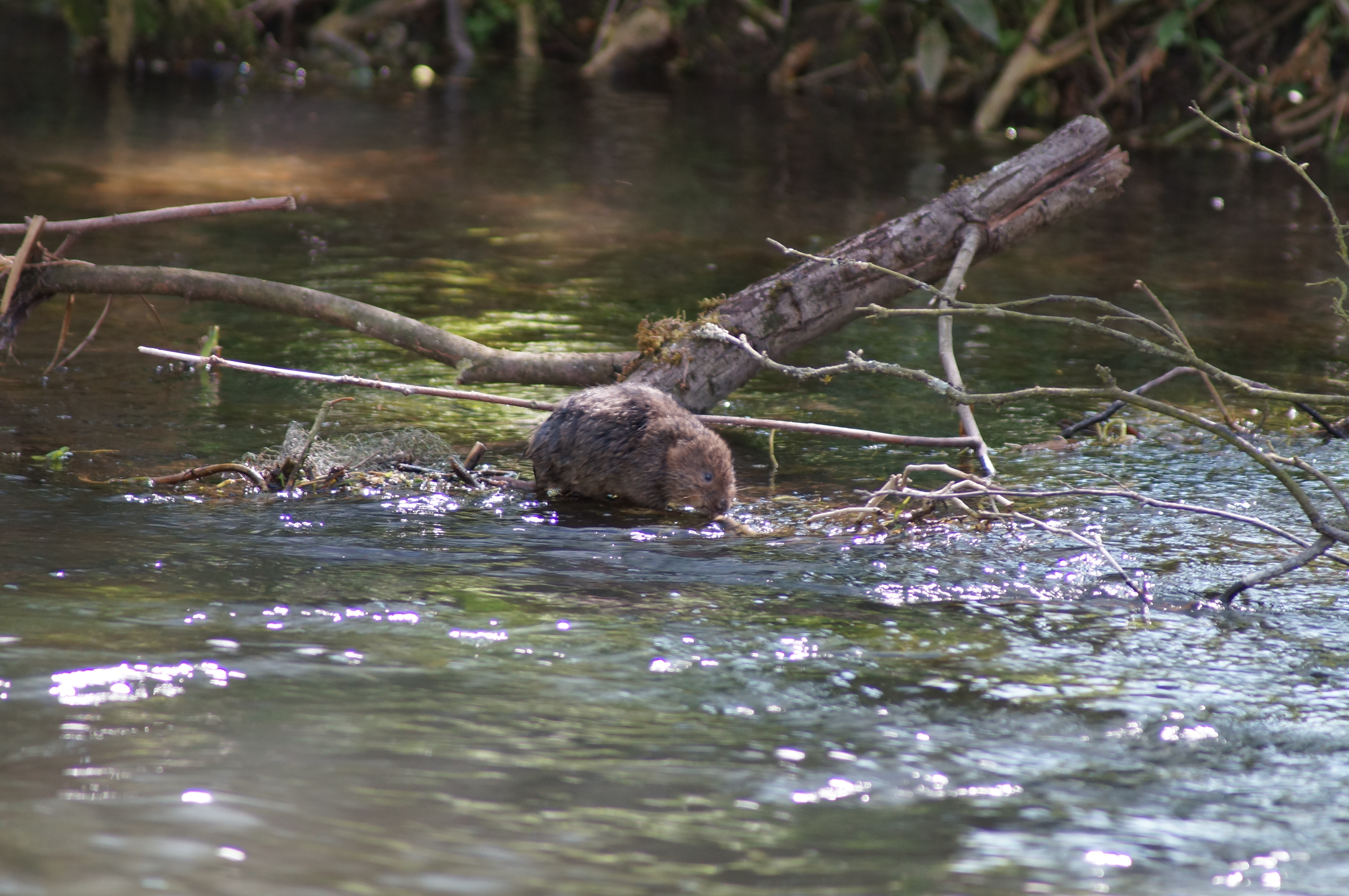 A Water Vole on the Itchen Navigation, Hampshire